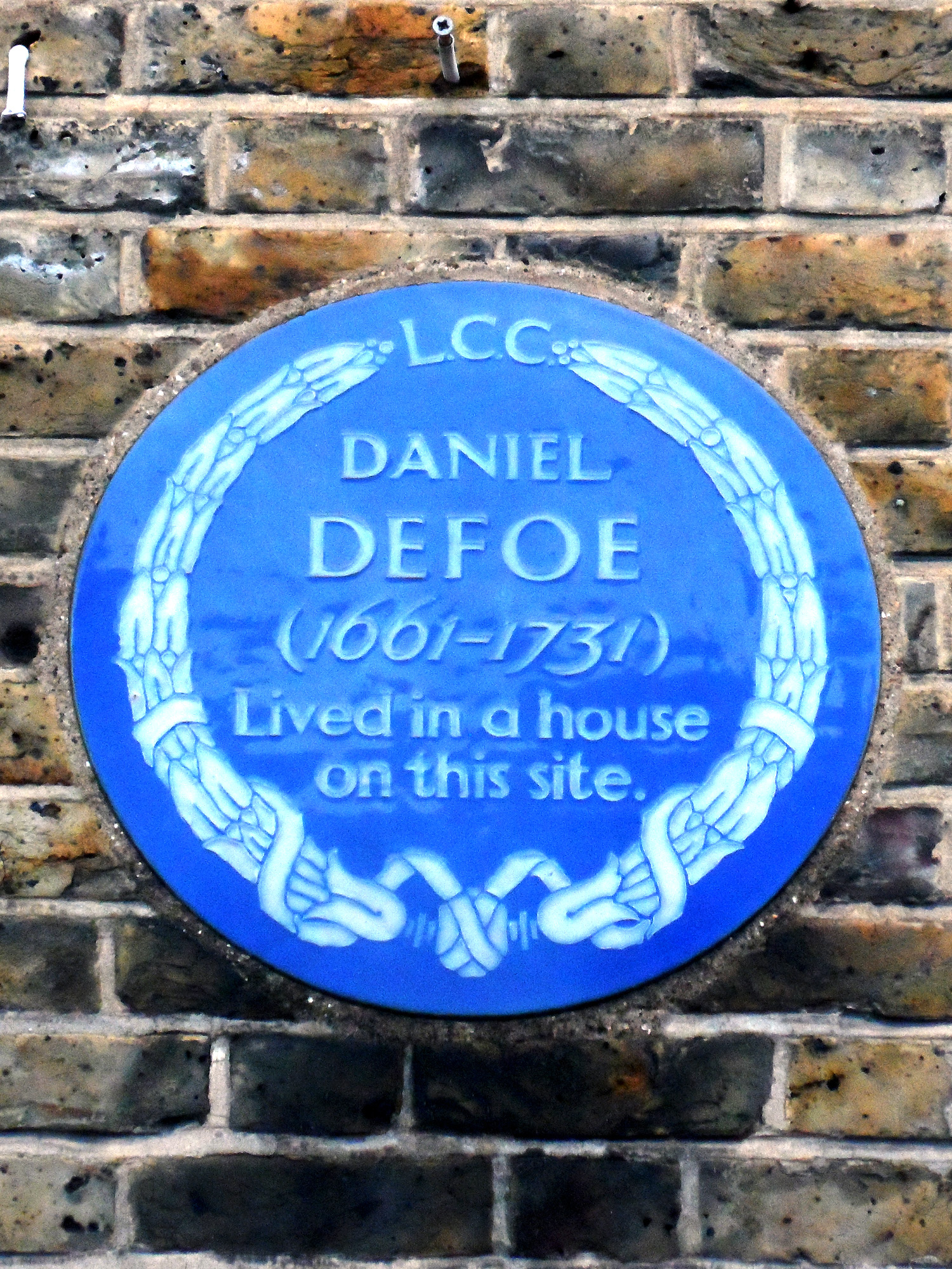 Blue plaque erected in 1932 by London County Council at 95 Stoke Newington Church Street, Stoke Newington, London N16 0AS, London Borough of Hackney